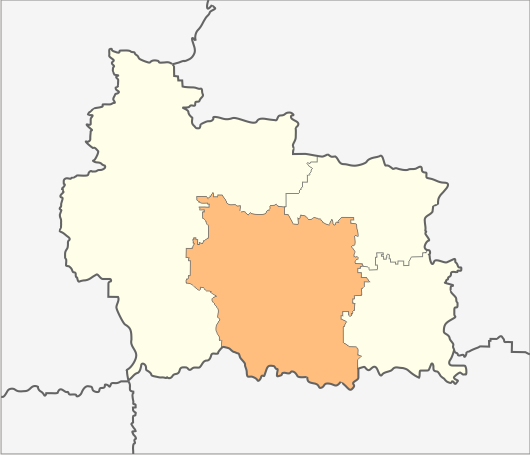 Map of Gabrovo municipality, Gabrovo Province